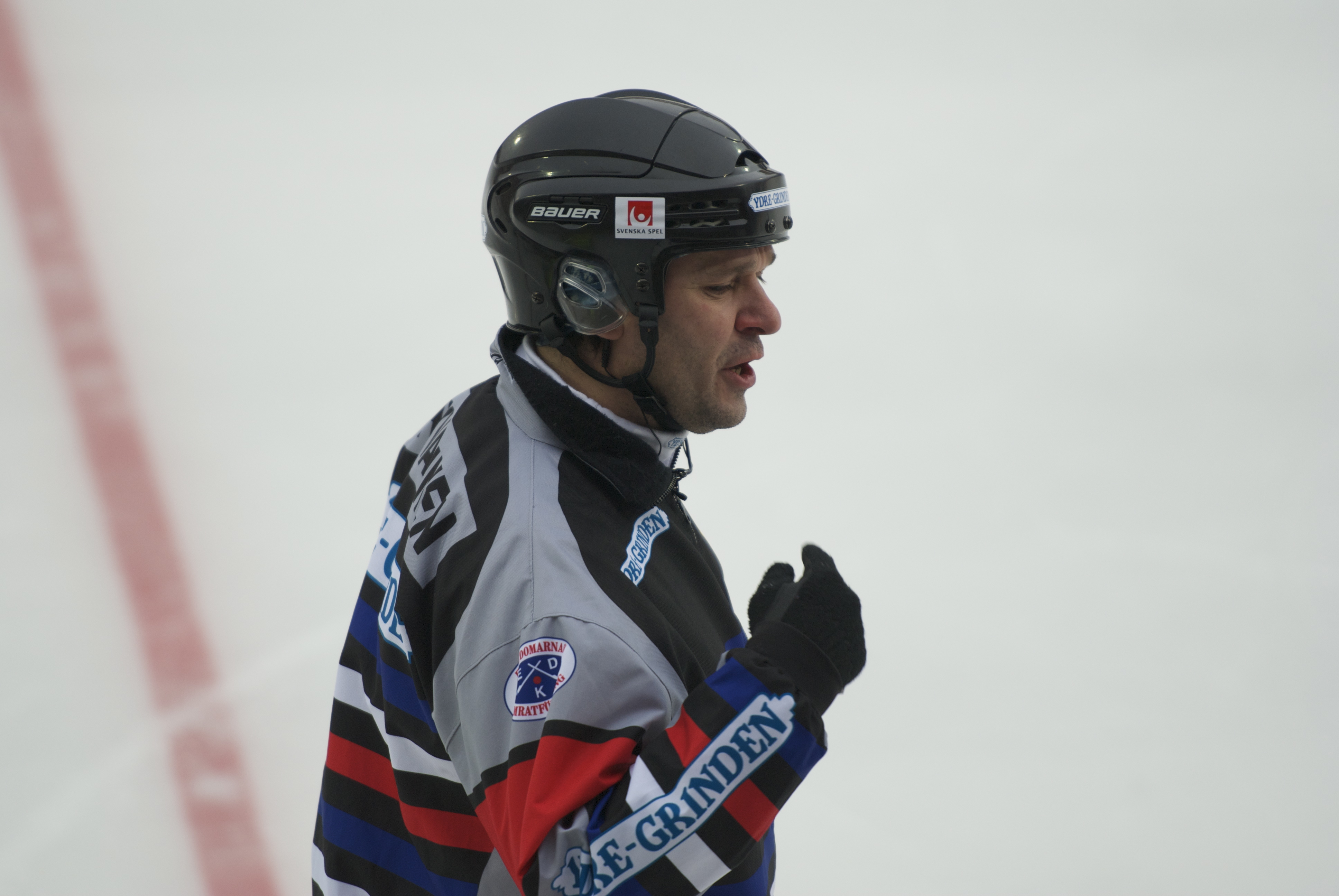 Keijo Hyvärinen, Bandy referee. Match between Hammarby and GAIS Elitserien, Zinkendamms IP (Stockholm) 2012-02-11.